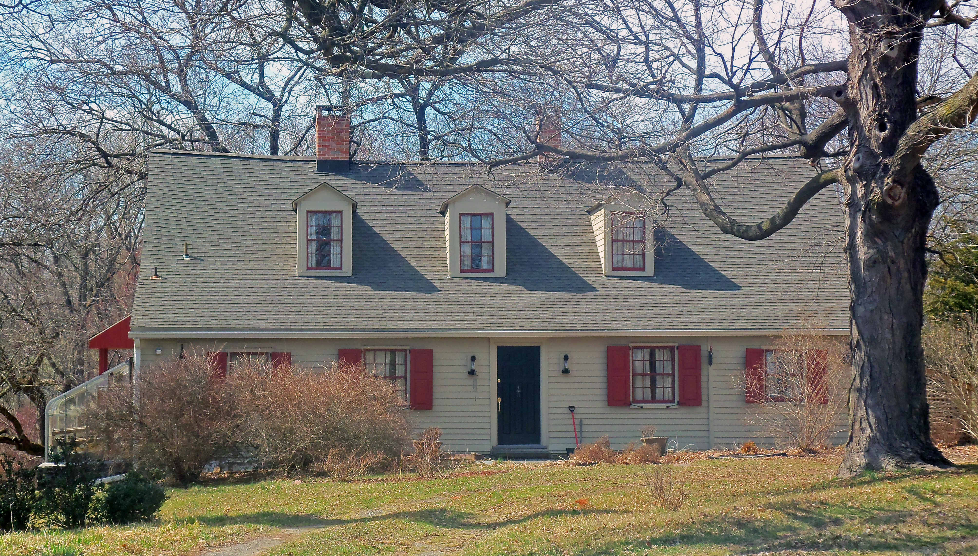 North (front) elevation of the Hendrick Martin House, Red Hook, NY, USA